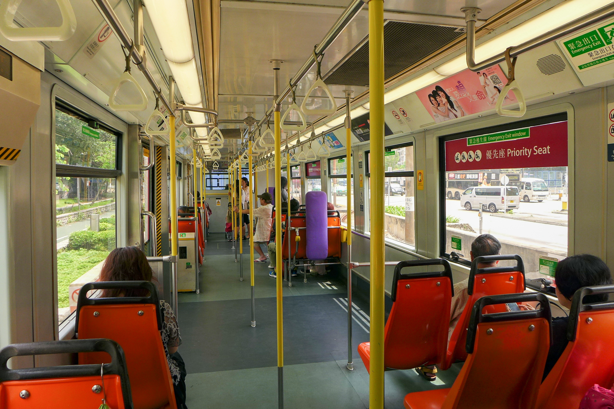 Phase III LRV interior